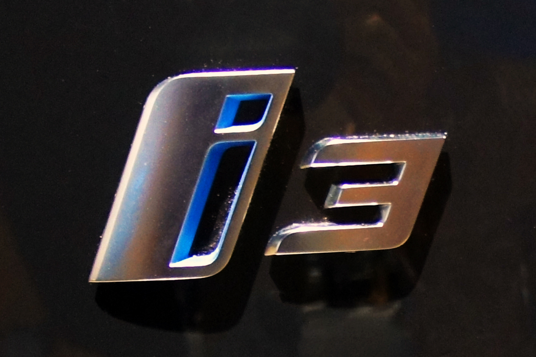 BMW i3 badge